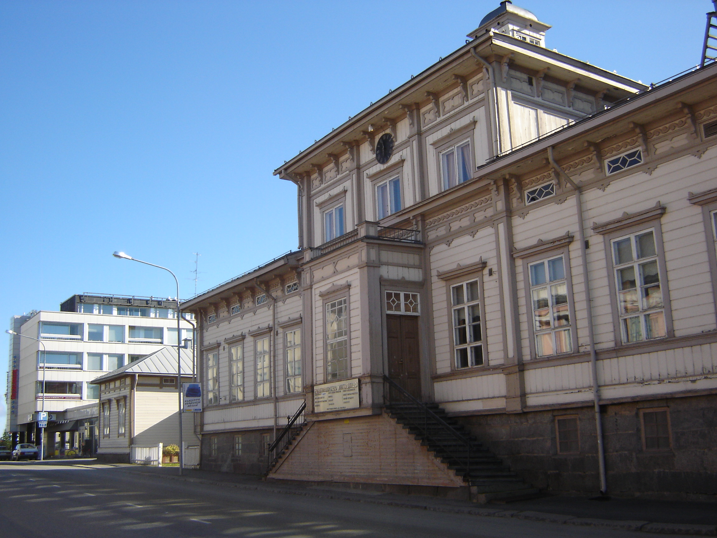 Town Hall of Tornio (1874) on Hallituskatu street in Tornio, Finland